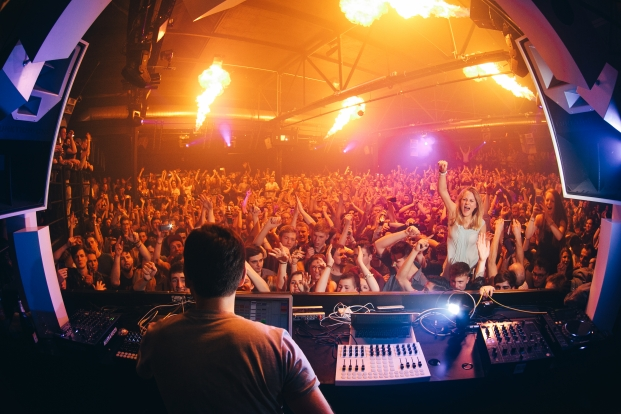 Bootshaus Mainfloor